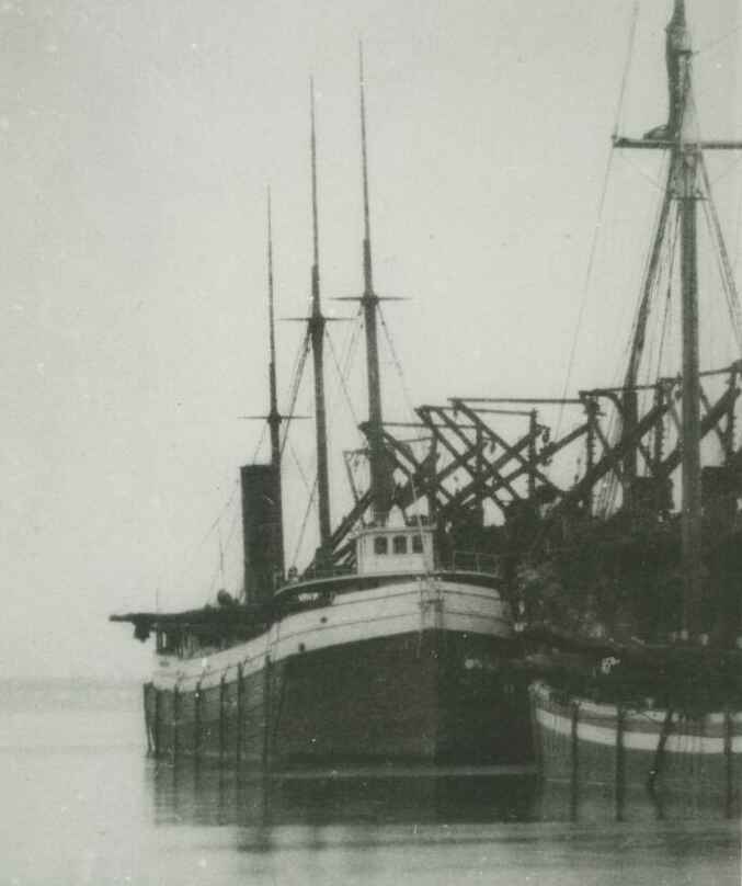 The steamer John M. Osborn before she sank